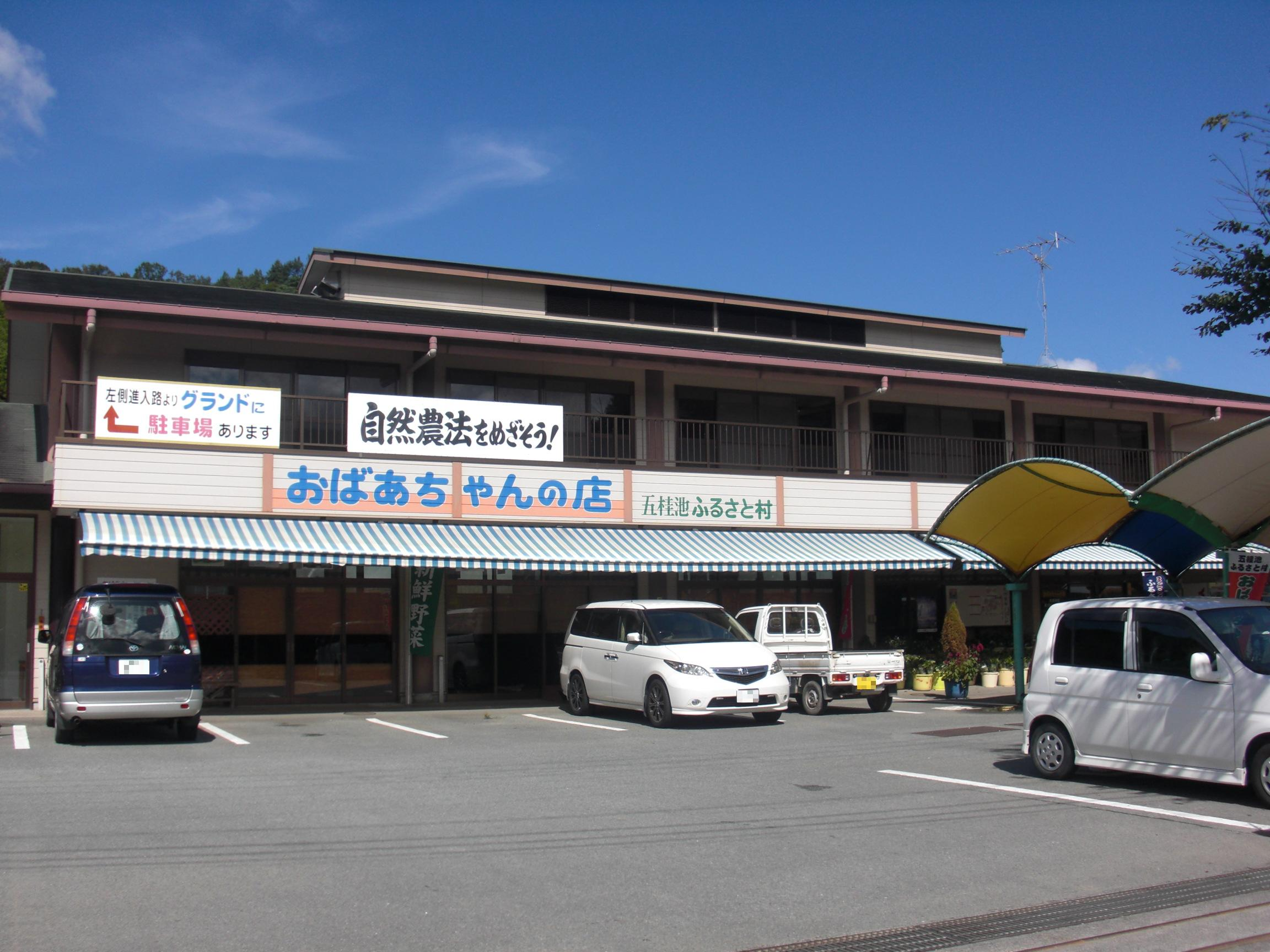 This is the Grandmothers's shop or Obaachan no Mise, which is in Taki, Mie, Japan.